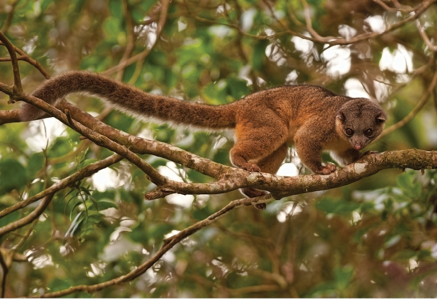 Northern Olingo, Bassaricyon gabbii, in life, in the wild. Photographed at Monteverde, Costa Rica by Greg Basco.